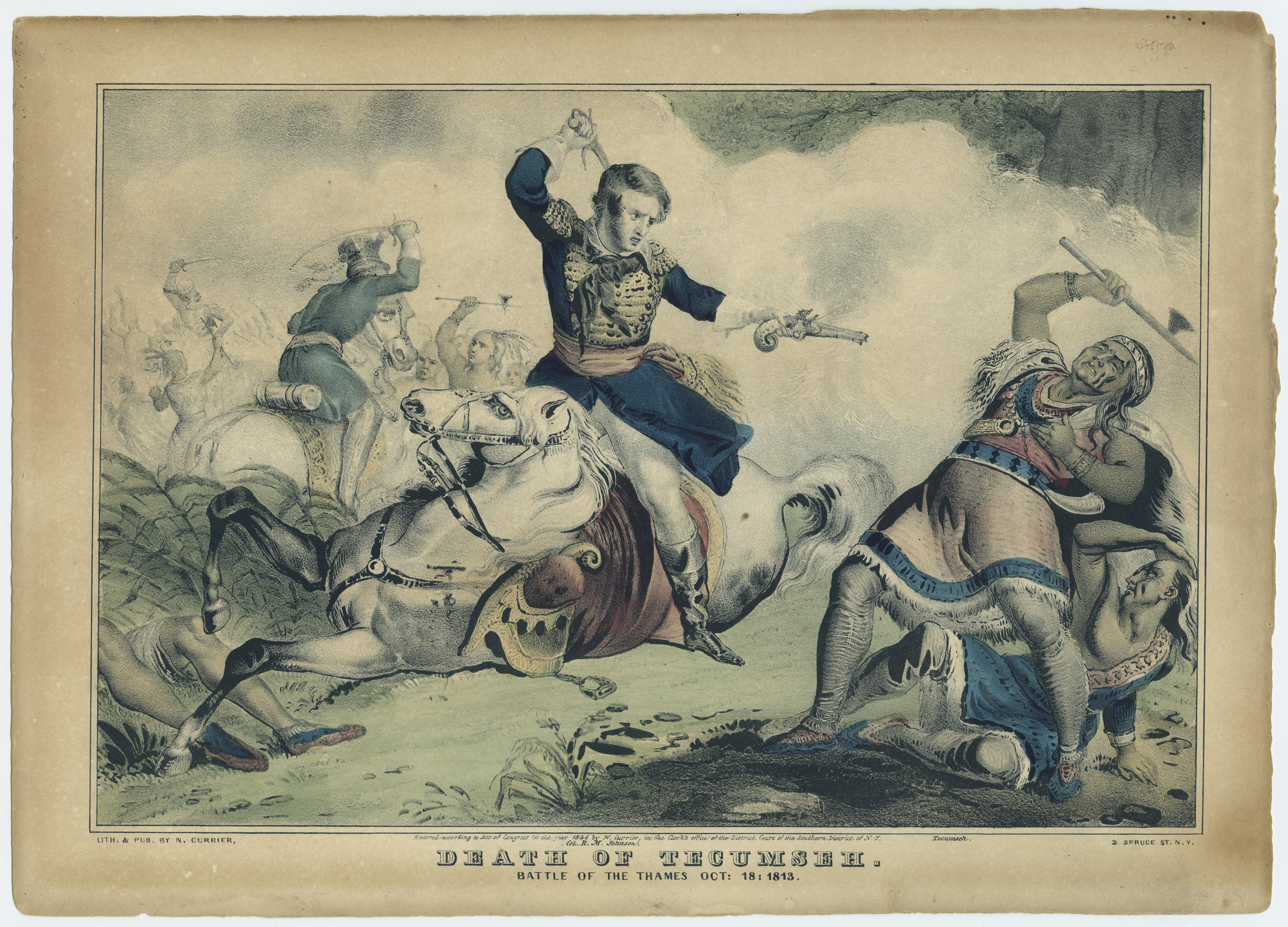 Colonel Johnson shoots Tecumseh; "Death of Tecumseh. Battle of the Thames", Oct. 18, 1813.